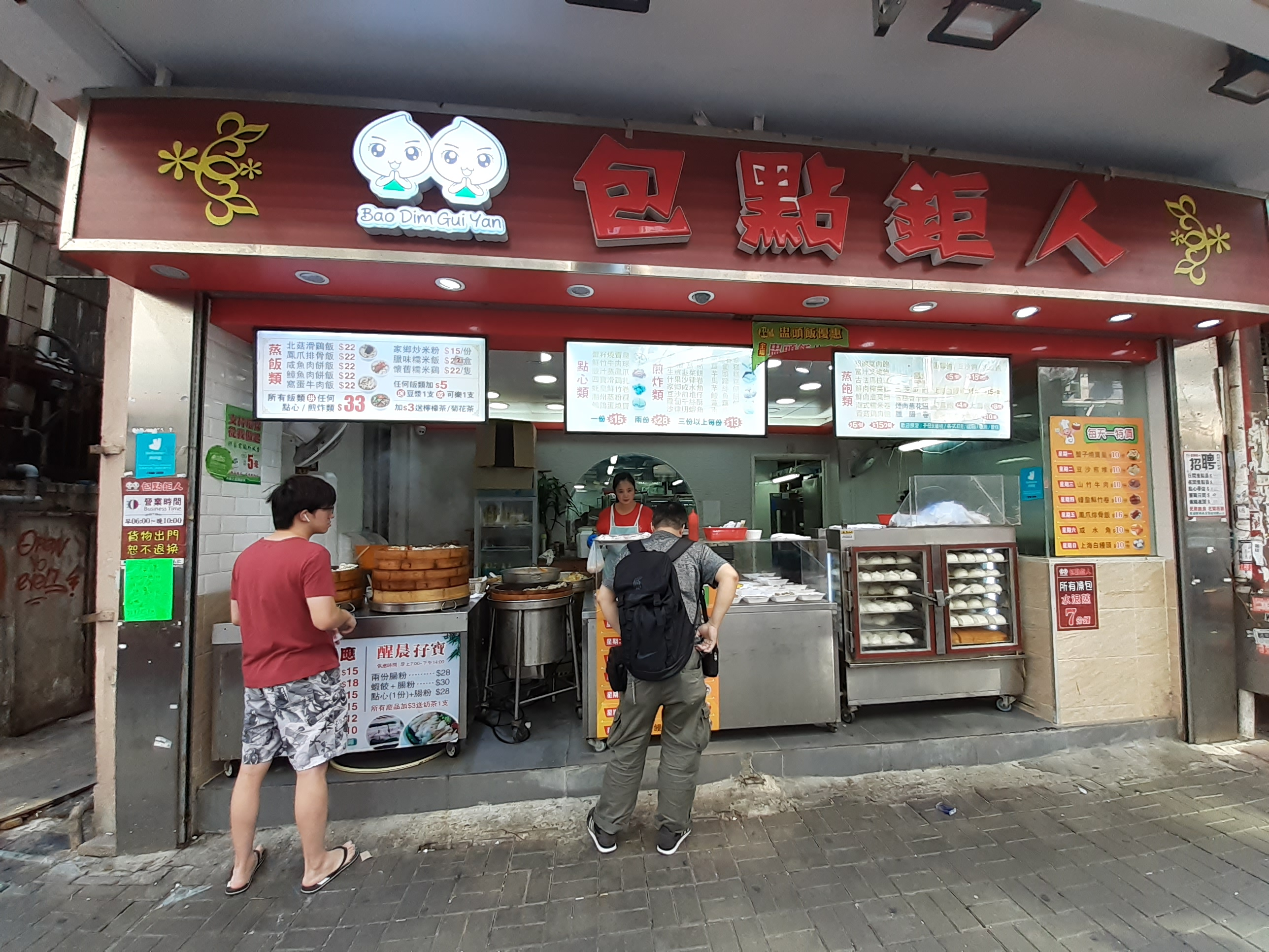 HK 堅尼地城 Kennedy Town 北街 North Street in October 2019